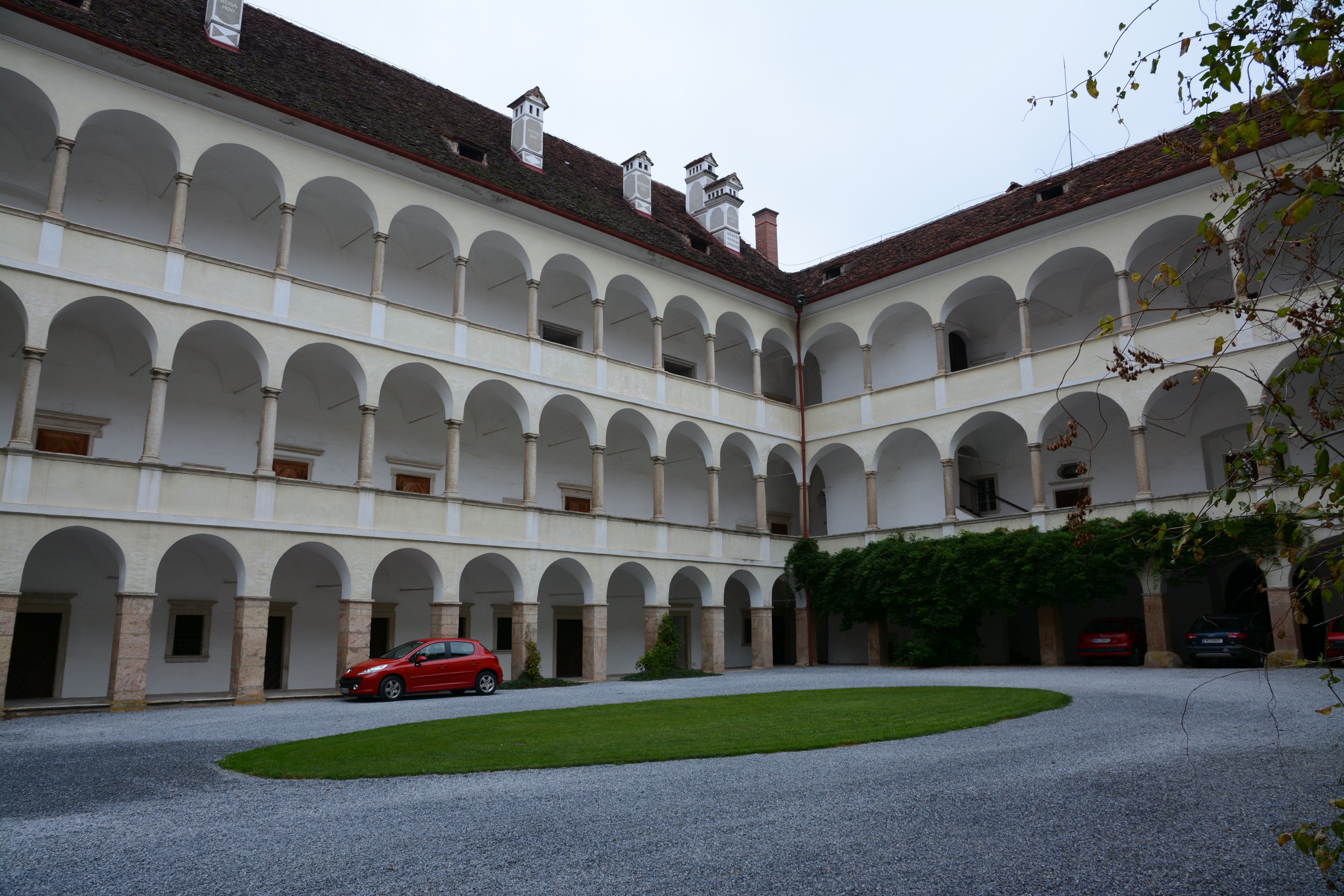 Schloss Thannhausen